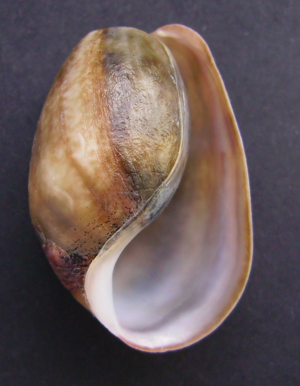 Bulla quoyii underside view, from Auckland, New Zealand. This work has been released into the public domain by its author, Graham Bould. This applies worldwide.In some countries this may not be legally possible; if so:Graham Bould grants anyone the right to use this work for any purpose, without any conditions, unless such conditions are required by law.